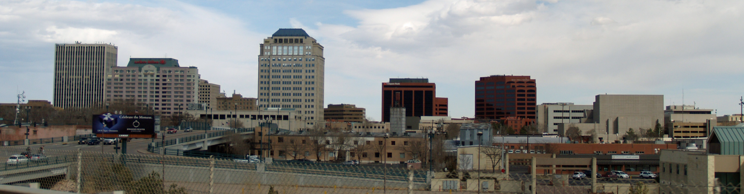 Cropped version of Downtown Colorado Springs by David Shankbone.jpg